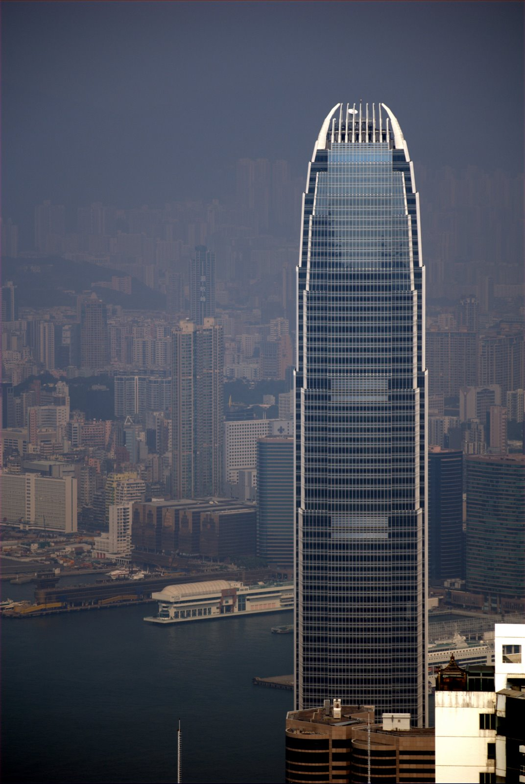 en:2IFC and surrounding buildings and the harbor taken from Victoria Peak by Hang Cheng on Nov. 11th, 2006. I'm the original author/photographer and enhanced it using Google's Picasa. Taken with a Nikon D200 using a Nikkor 75-240mm telephoto. -Comatose51 16:01, 15 November 2006 (UTC)